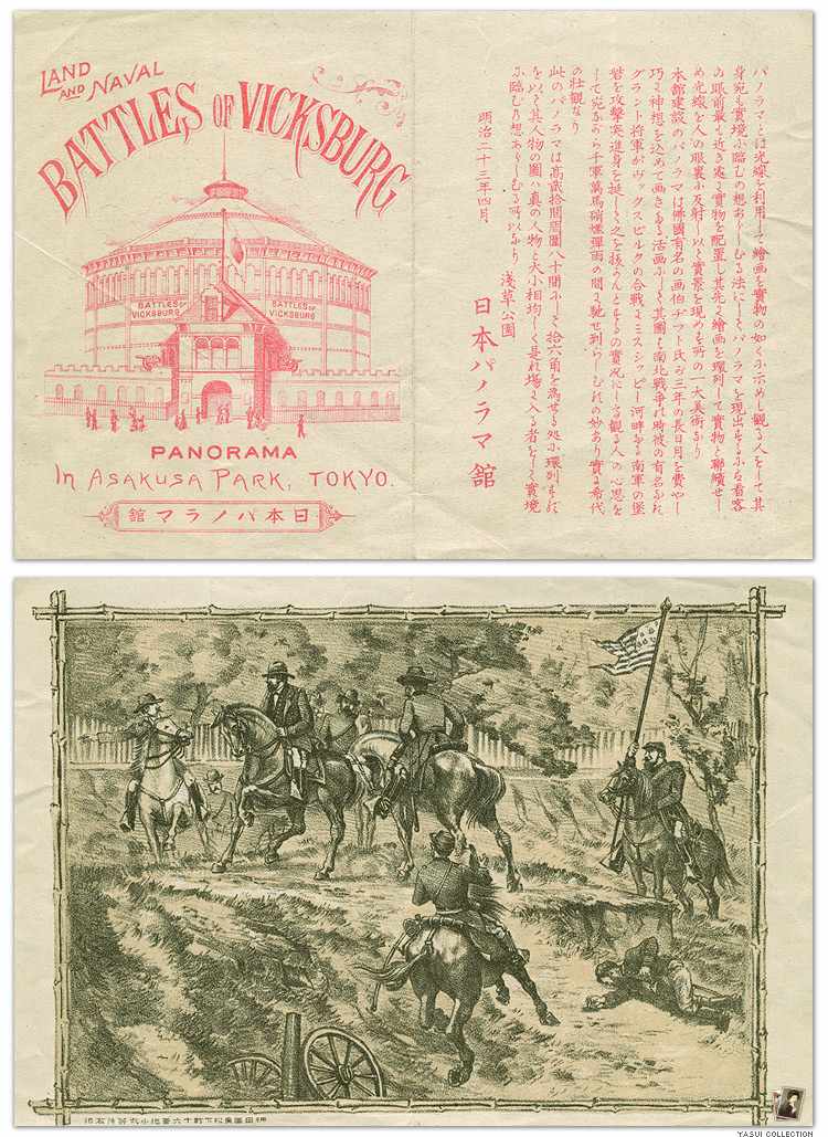 Pamphlet "Land and Naval Battles of Vicksburg, Panorama in Asakusa Park, Tokyo," c. 1891; cyclorama mural by Lucien-Pierre Sergent, completed and first exhibited in Paris 1888. The massive painting was exhibited in New York, Chicago and San Francisco before it was installed in Asakusa Park in Tokyo.